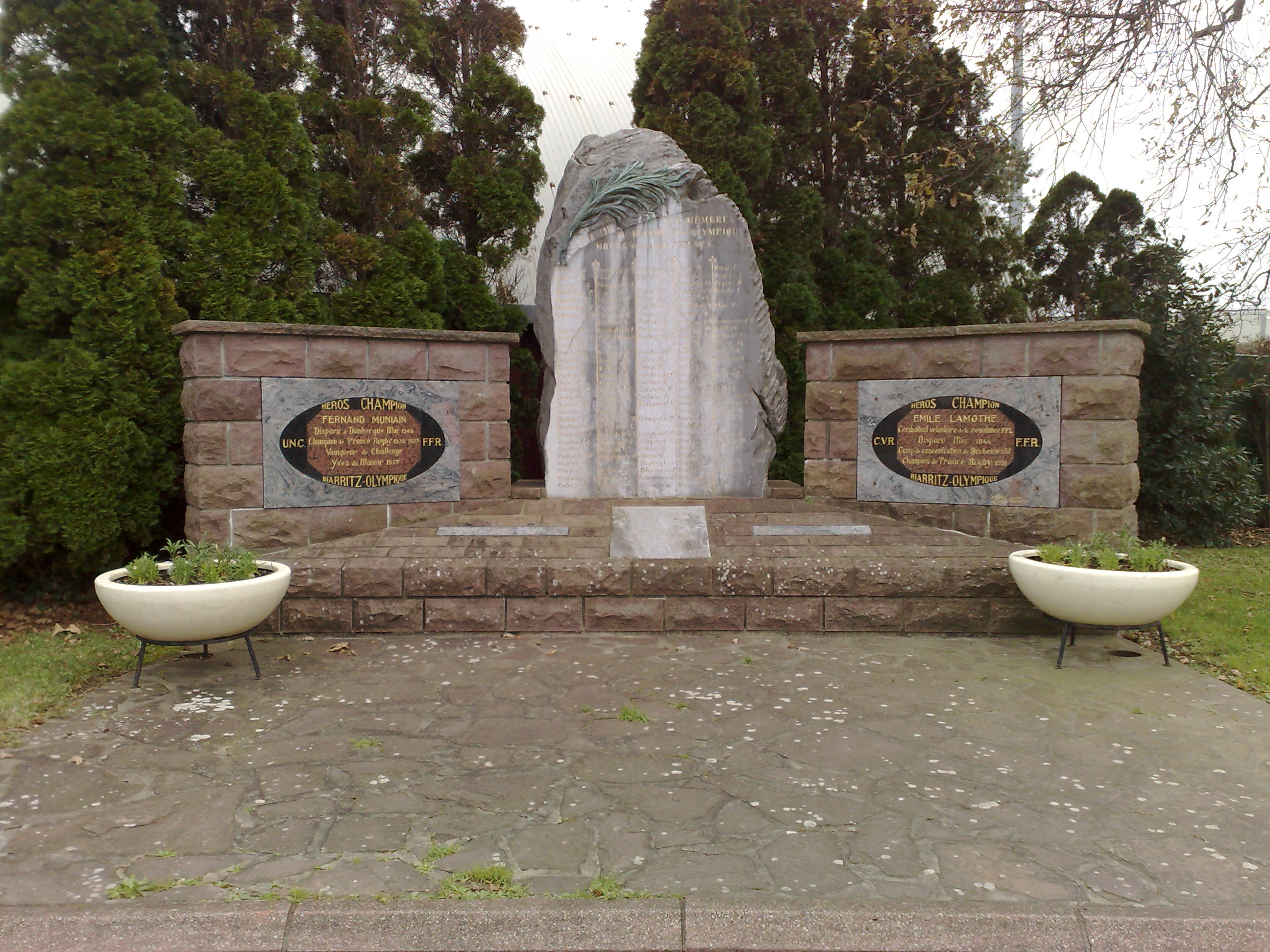 War memorial for fallen members of Biarritz Olympique rugby team at Aguiléra stadium, Biarritz, Lapurdi - Labourd, Basque Country.